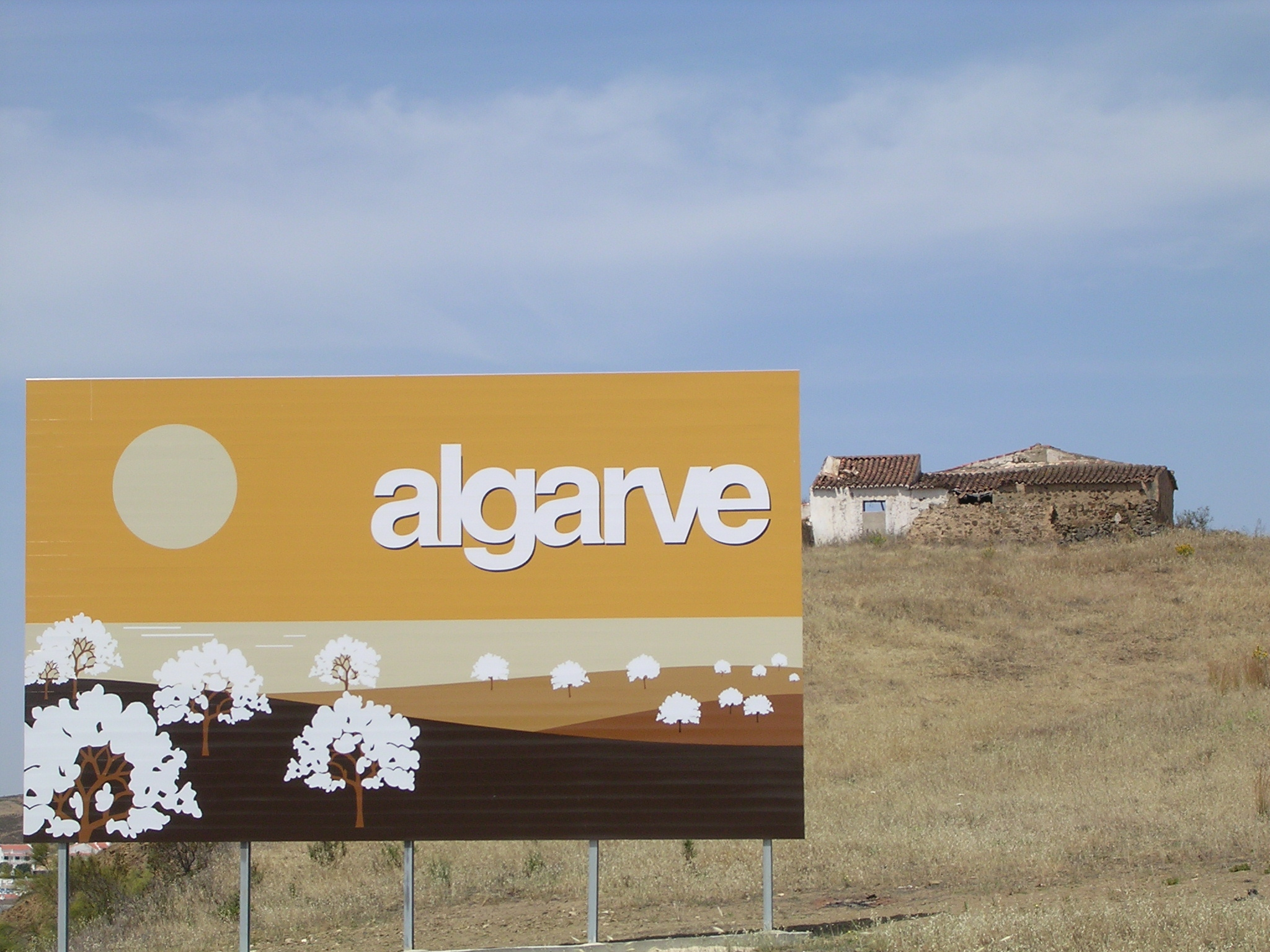 Algarve, in Portugal.Welcome to Algarve